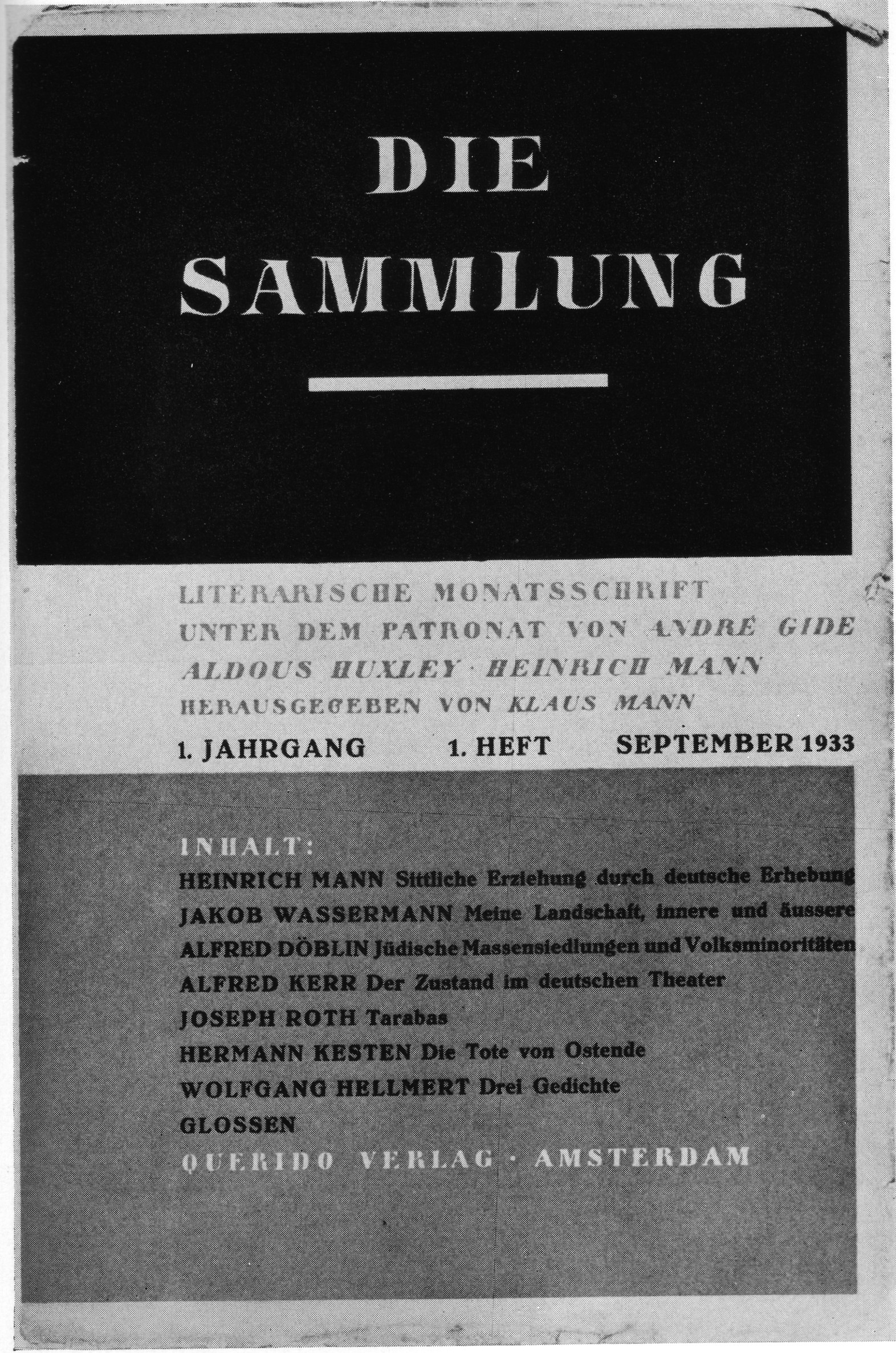 Cover "Die Sammlung" September 1933 Magazine of German exil-writers in Amsterdam Photograph taken by me from an original issue in my possession